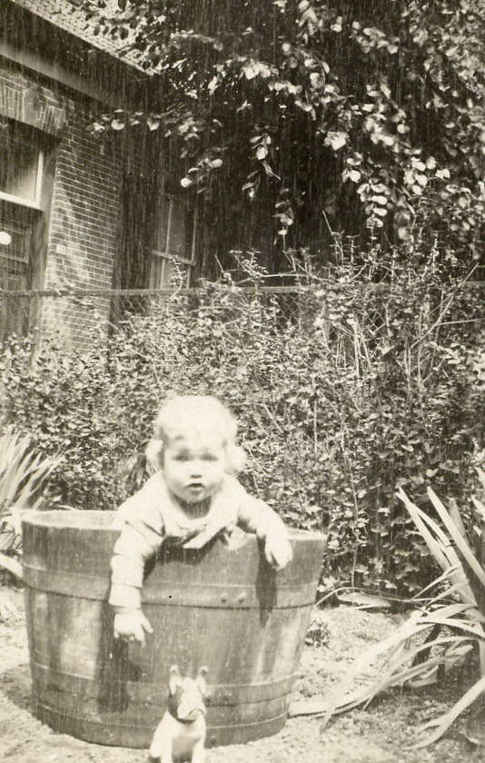 My uncle Sieb as a child in a tub in the garden. Notice the dog in front of him. it's 1931.